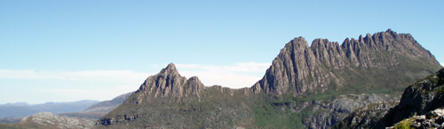 Cradle Mountain, view from Marions Peak.